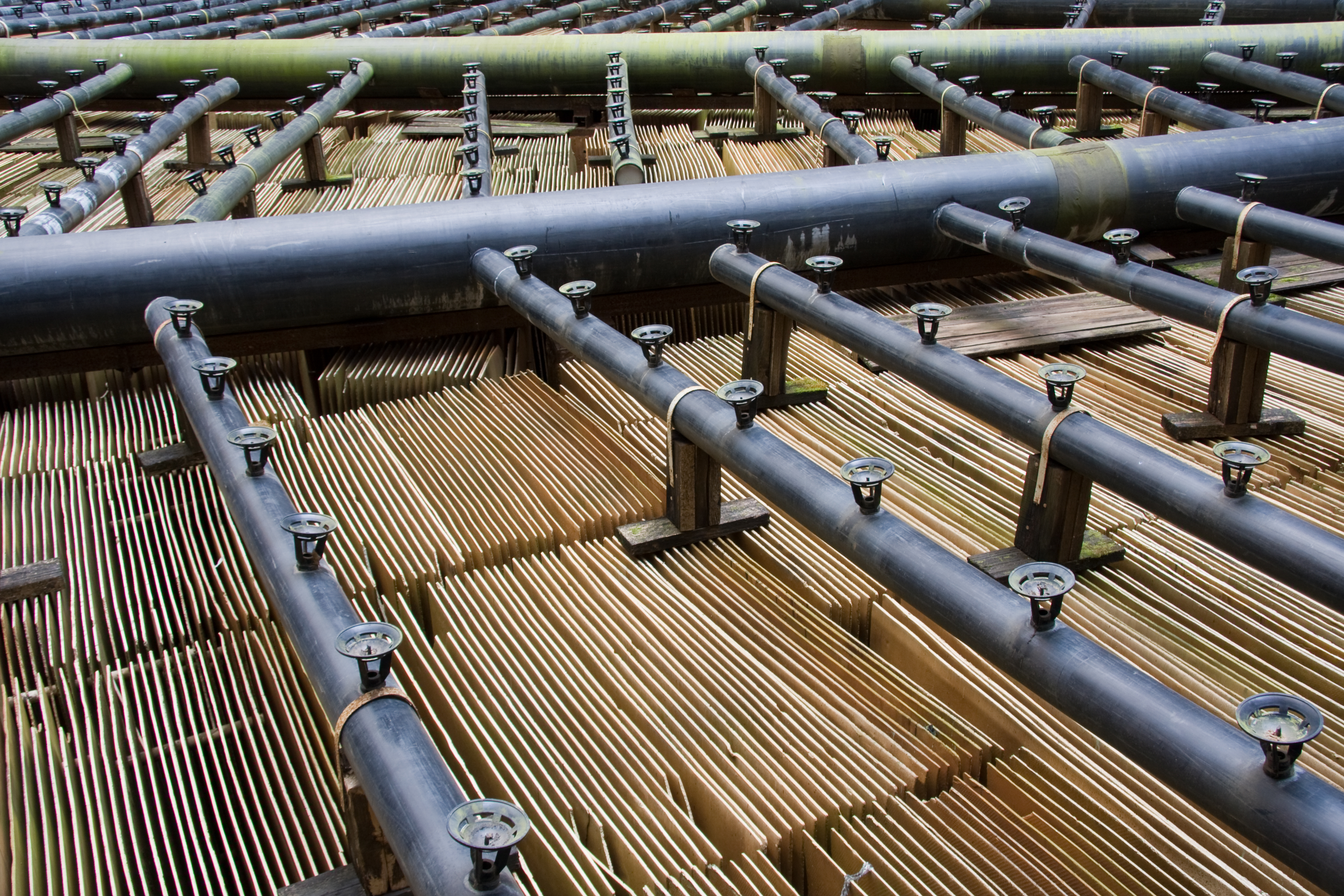 Floor of the cooling tower at Iru Power Plant near Tallinn, Estonia.